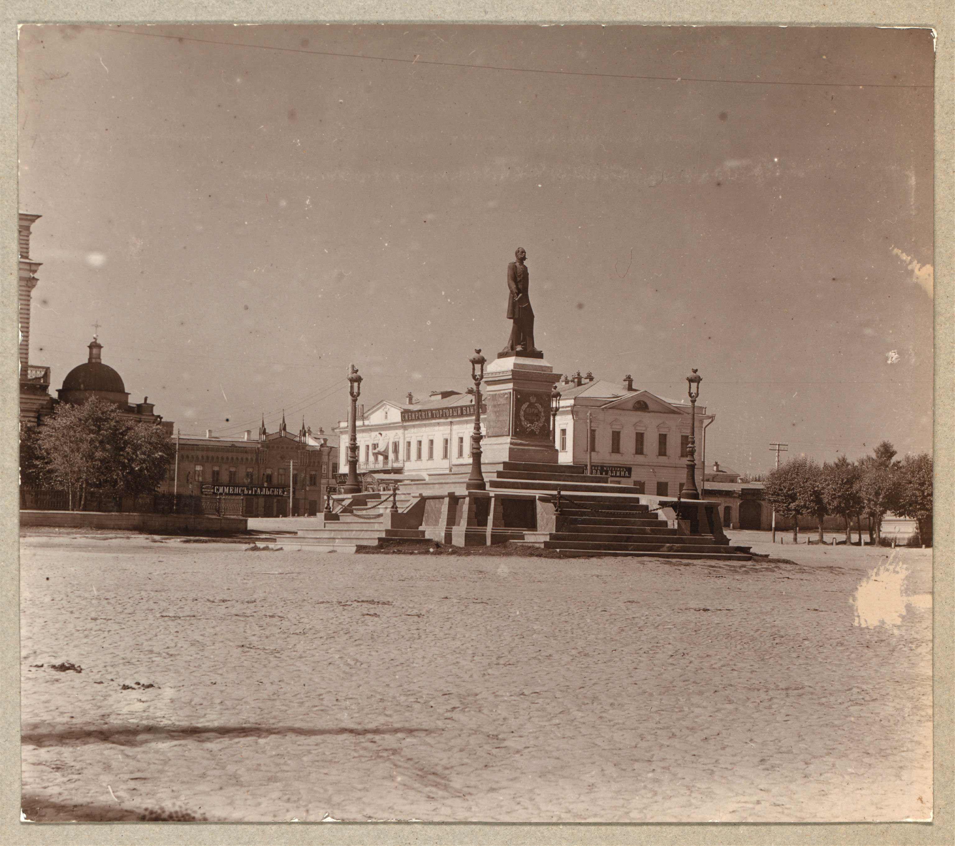 Monument to Emperor Alexander II in Yekaterinburg, Russia.